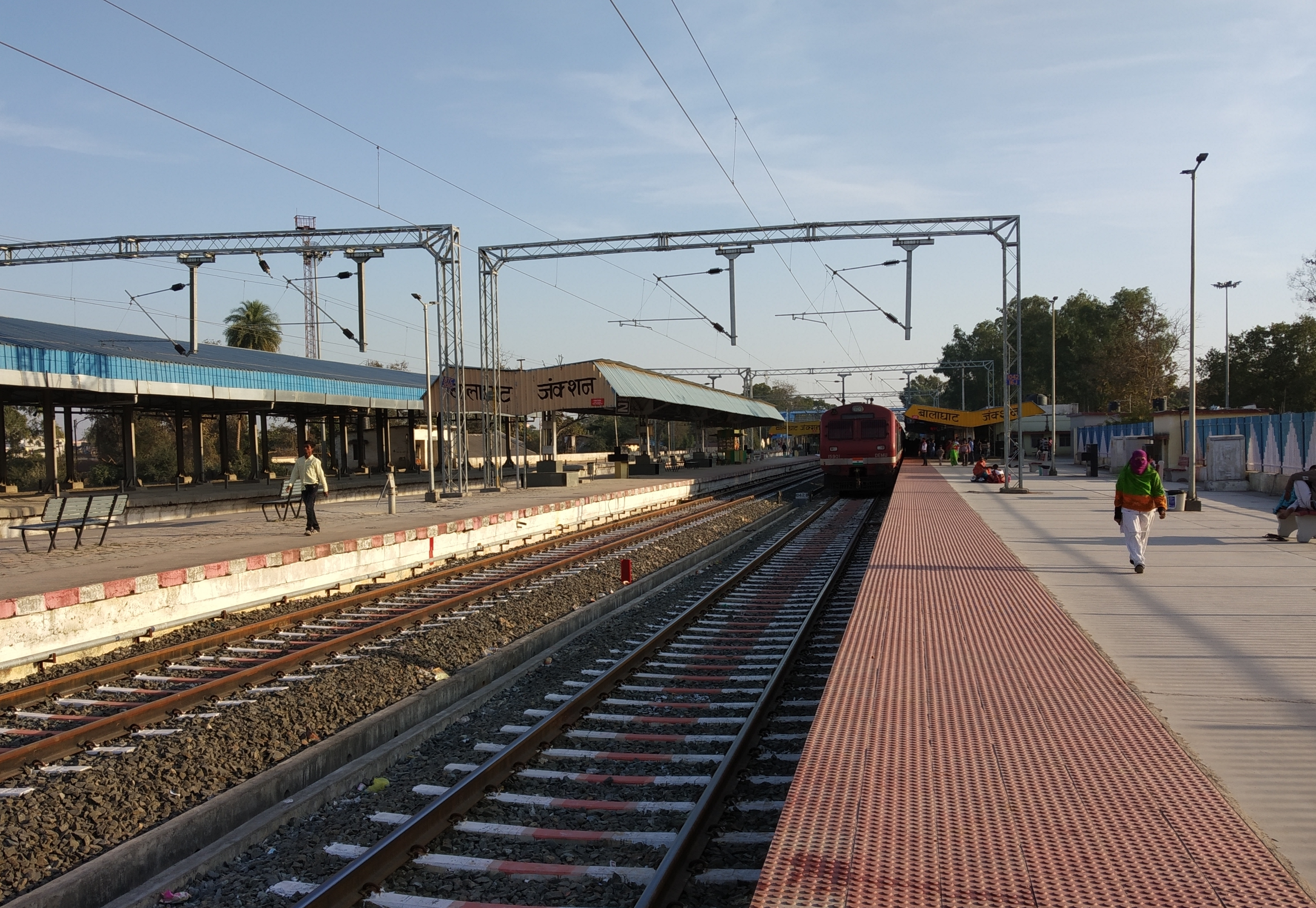 Balaghat station is renewed in 2018-19.